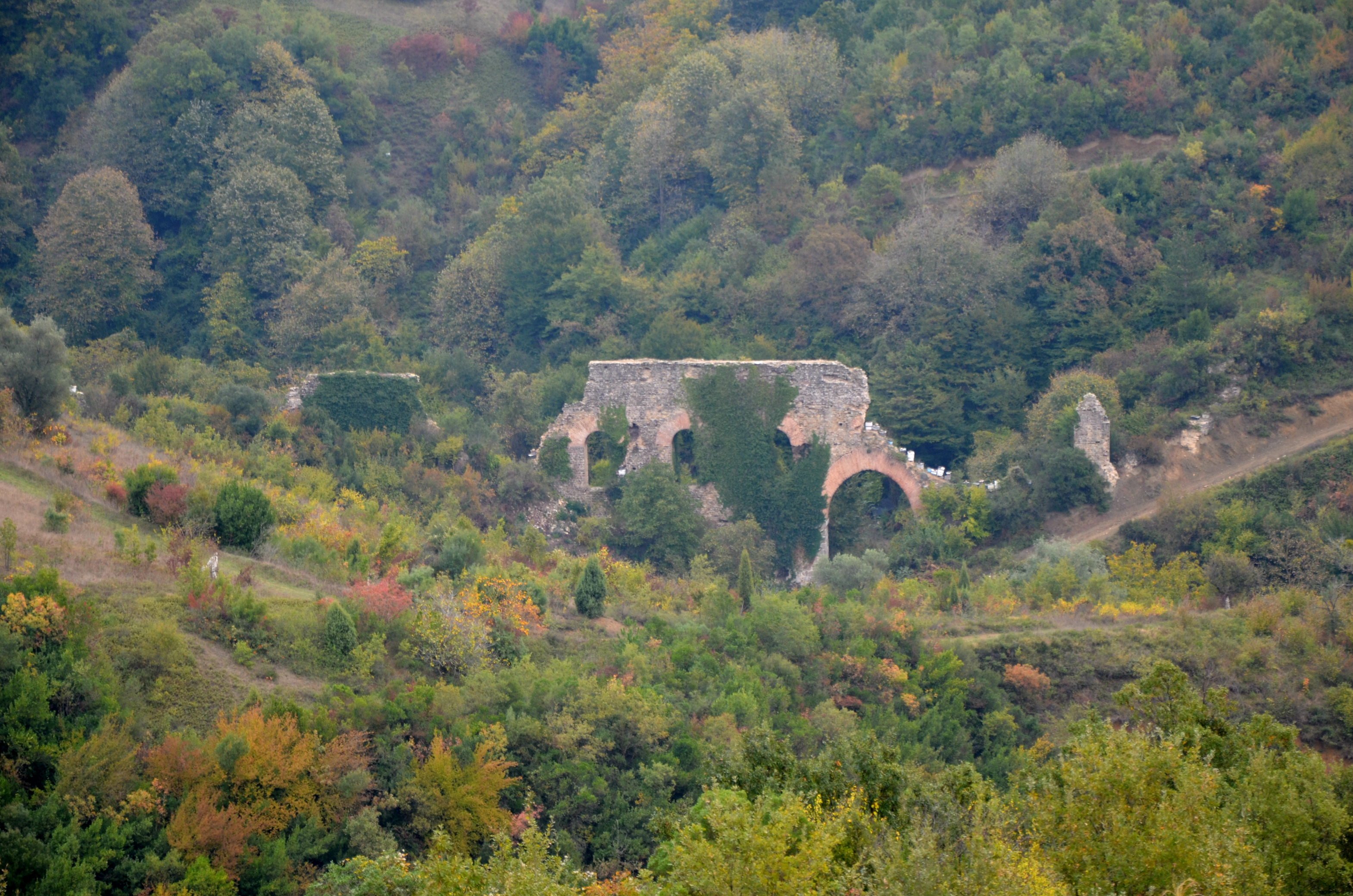 Nicomedia Aqueduct, Izmit, Turkey